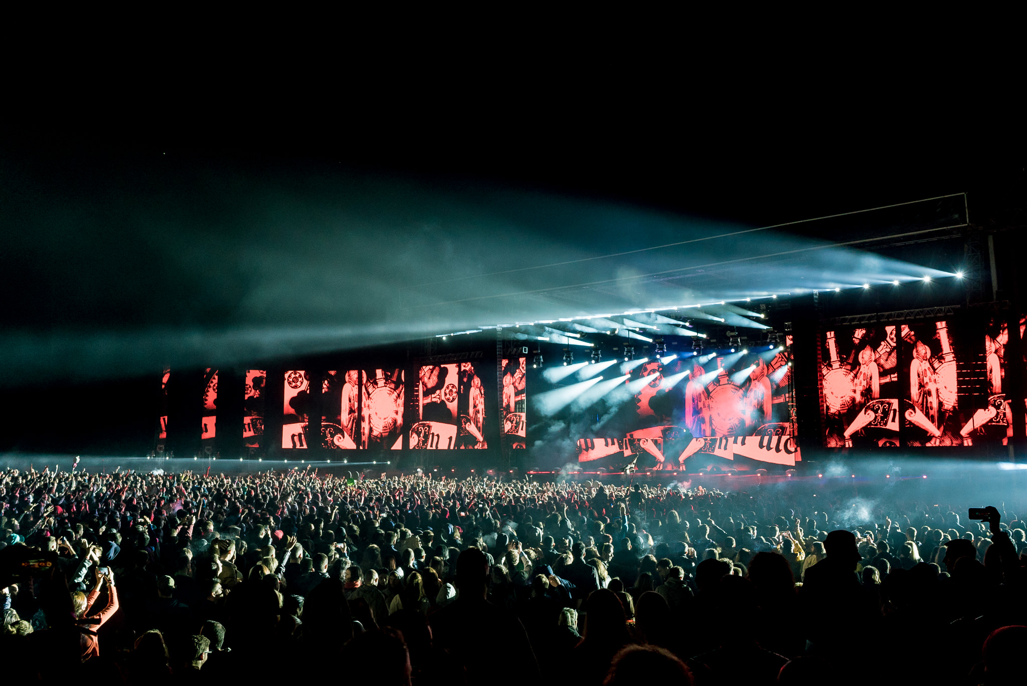 Electric Castle festival, Romania, 2017. Main Stage